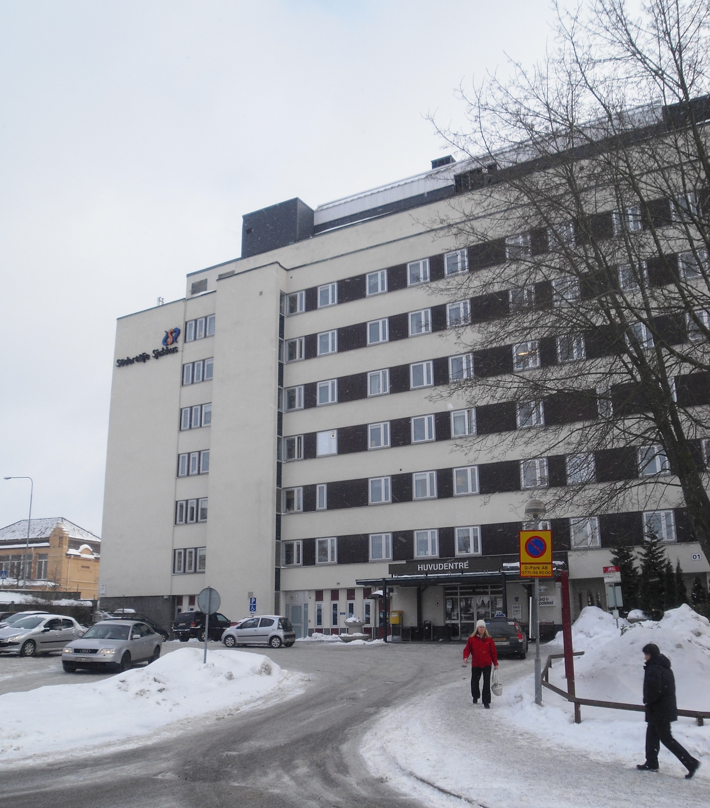 The hospital in Södertäje, south of Stockholm, Sweden